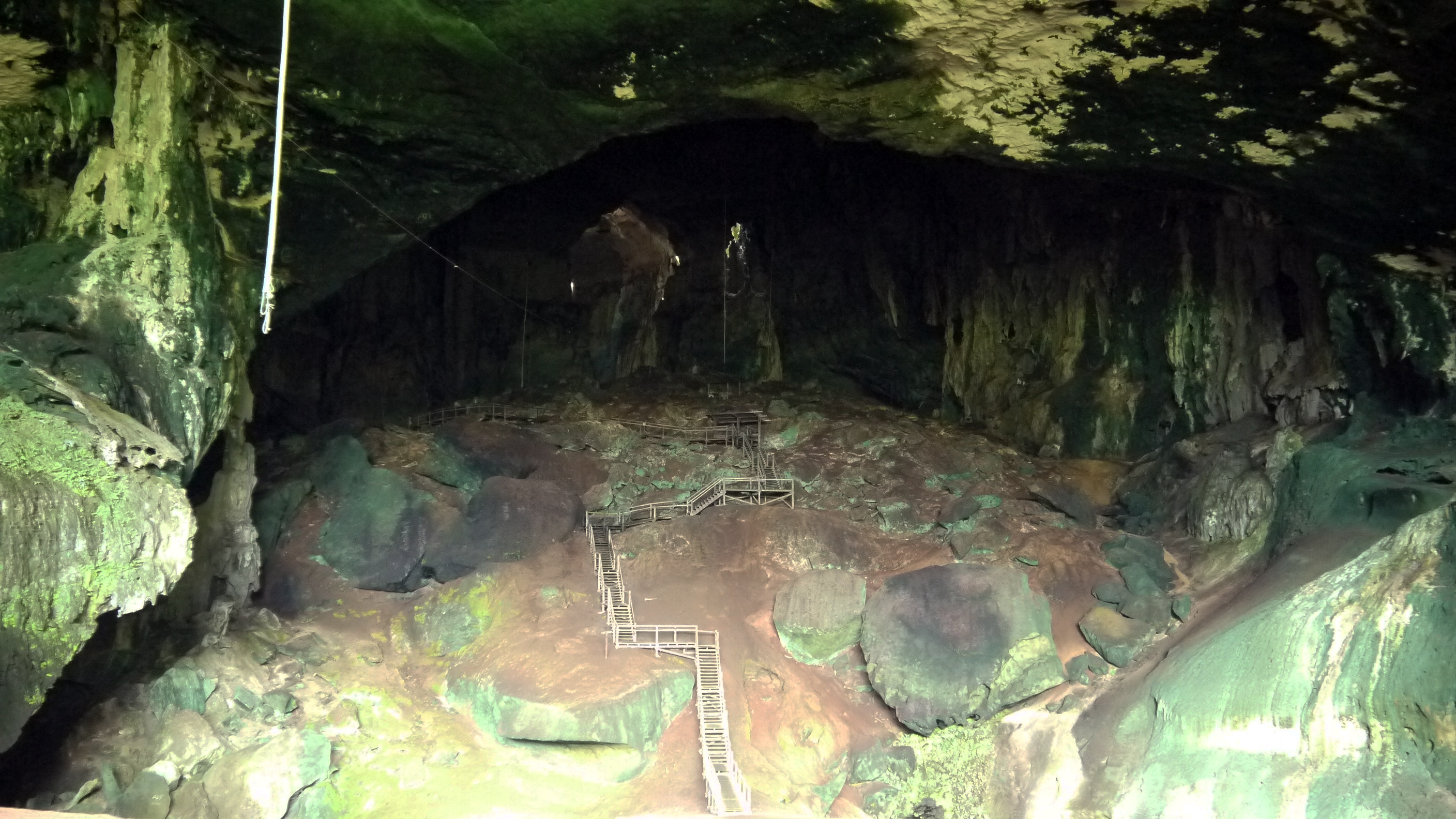 The entrance of the Great Cave or Lobang Kuala of Niah Cave, looking inside.